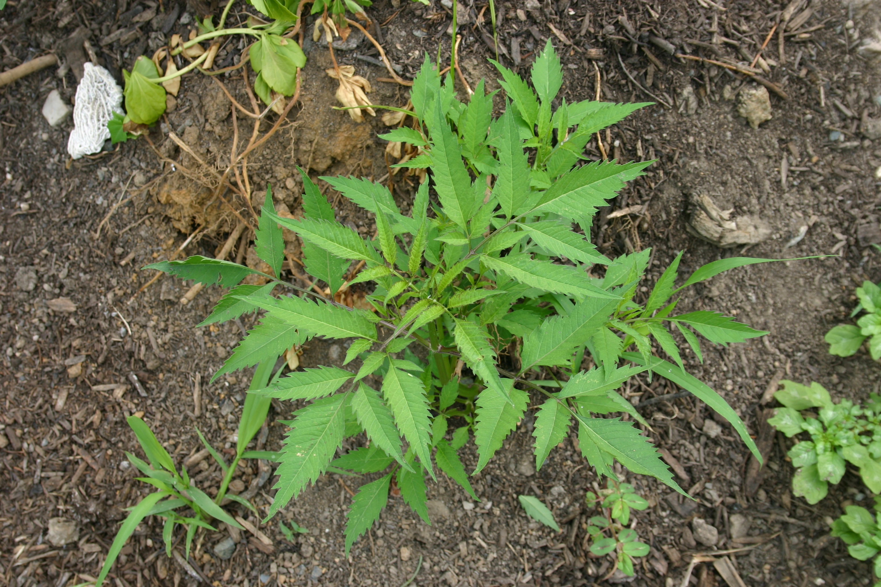 Bidens frondosa